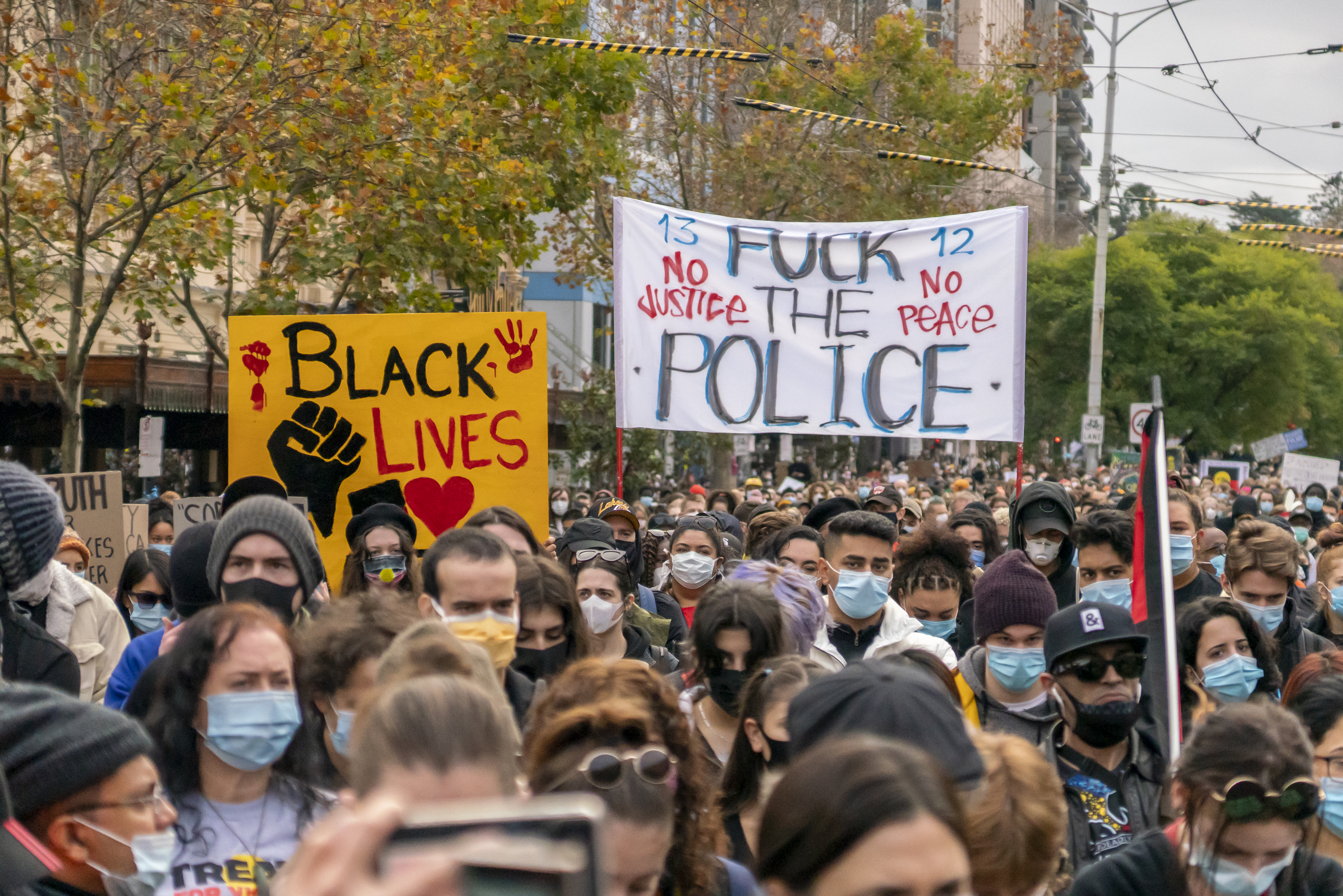 Black Lives Matter protest in Melbourne on 6 June 2020